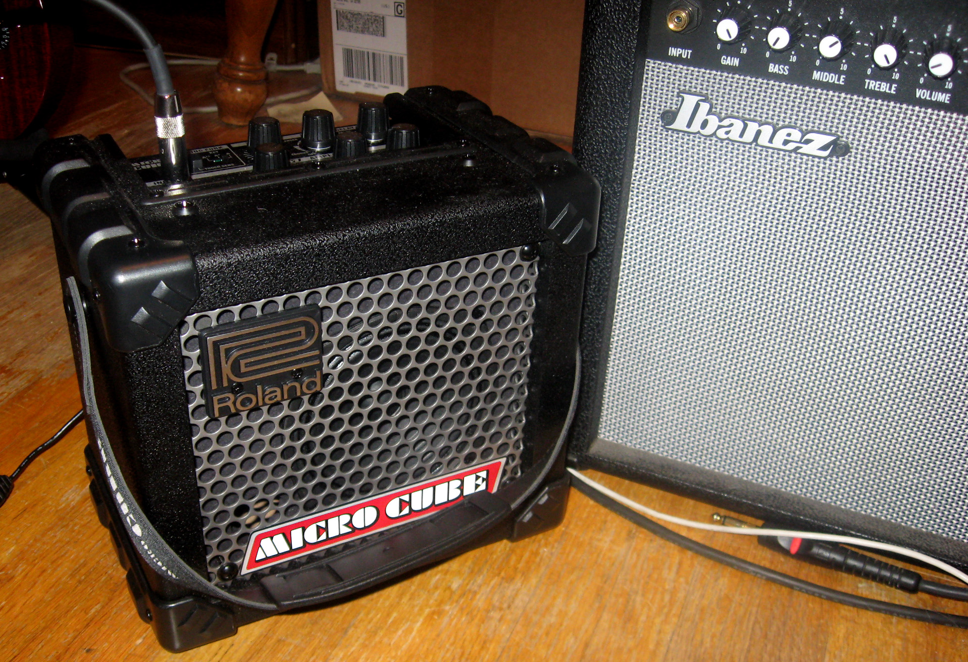 A Roland Micro Cube, next to an Ibanez GTA15R for size comparison.